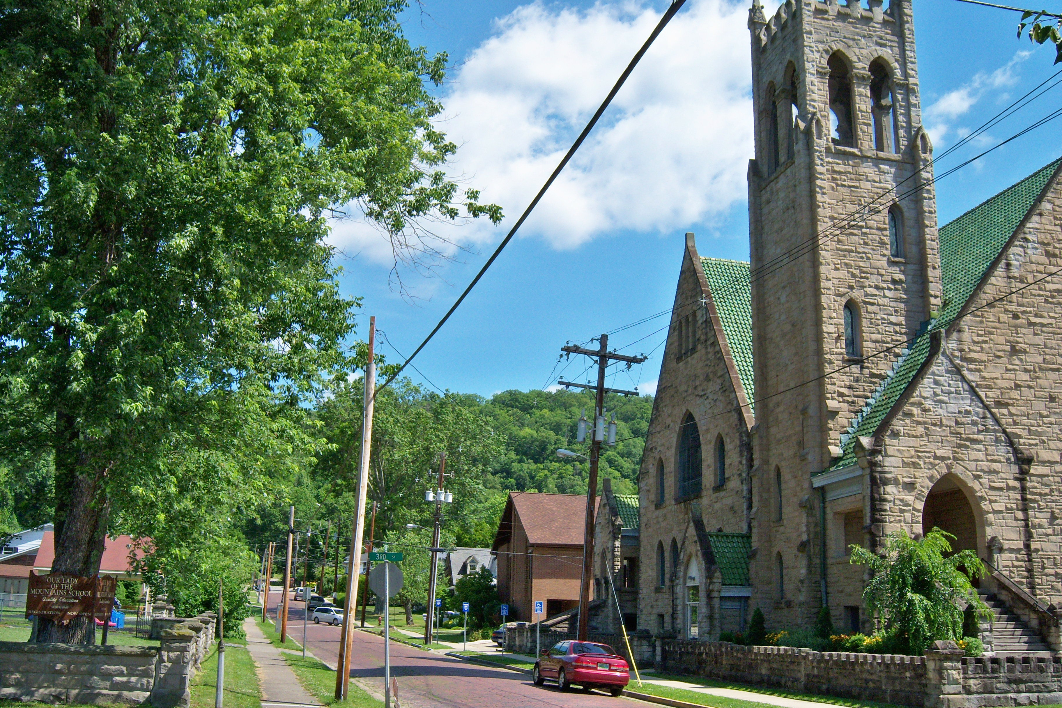 Brick portion of Court Street in Paintsville, Kentucky.